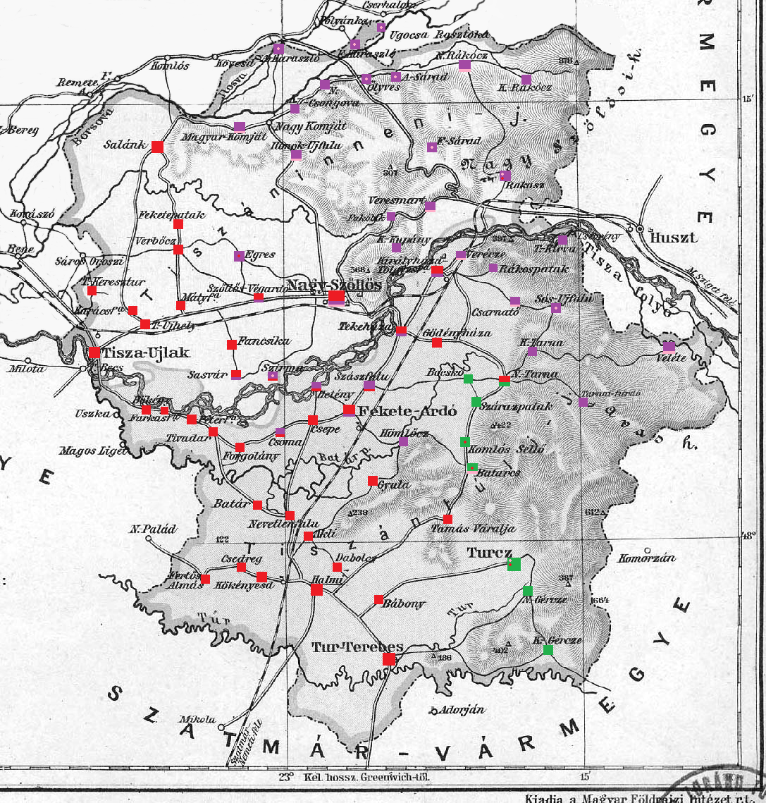 Ethnic map of the county (with data of the 1910 census). Key: red - Hungarians; violet - Ruthenians; dark green - Romanians; pink - Germans. Coloured dots in plain rectangles imply the presence of smaller minority populations (generally more than 100 people or 10%). Multicoloured rectangles imply cities and villages with multi-ethnic populations with the order of the stripes following the ethnic composition of the settlement.